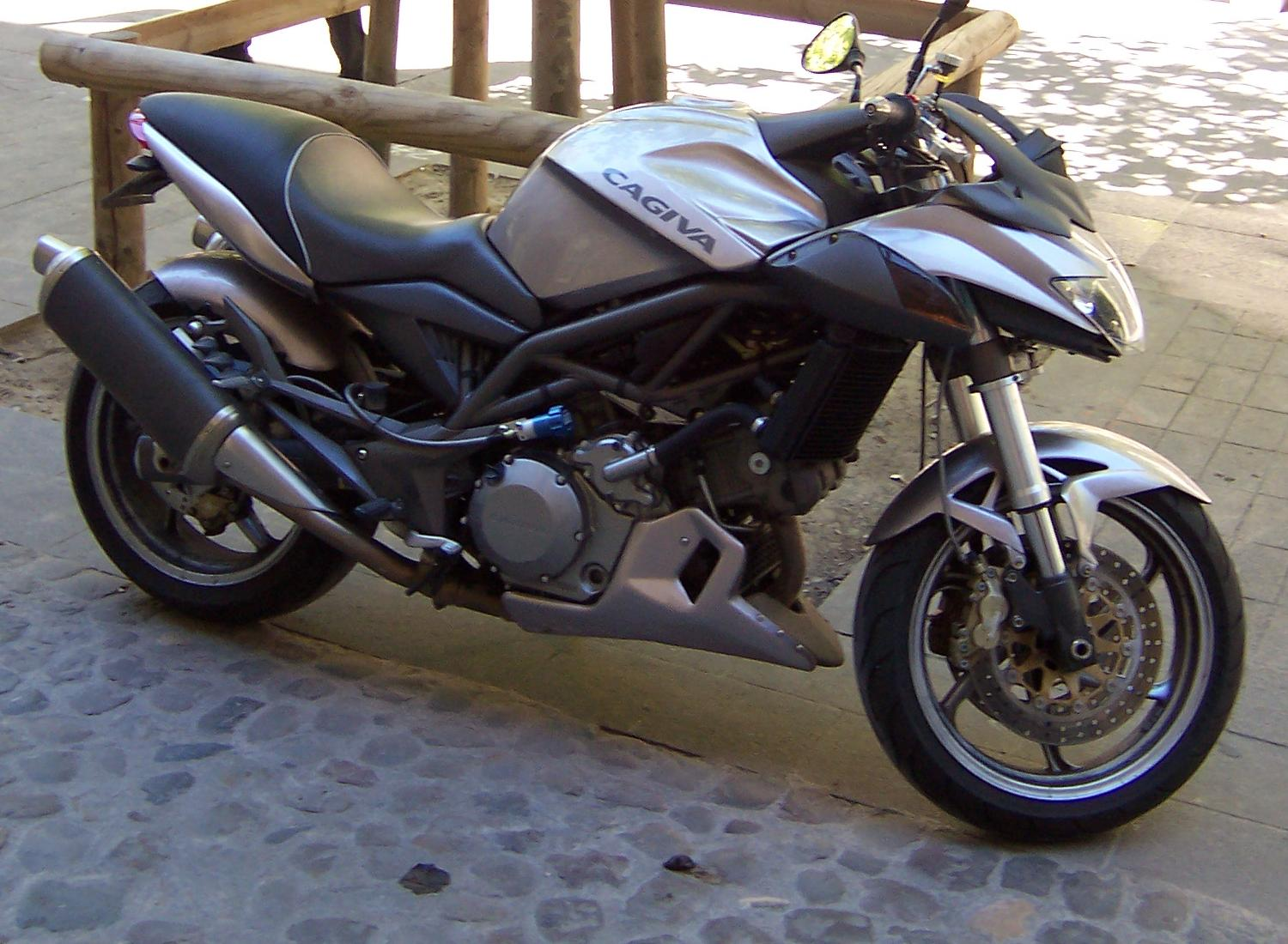 Moto Cagiva Raptor photo of 16/08/05